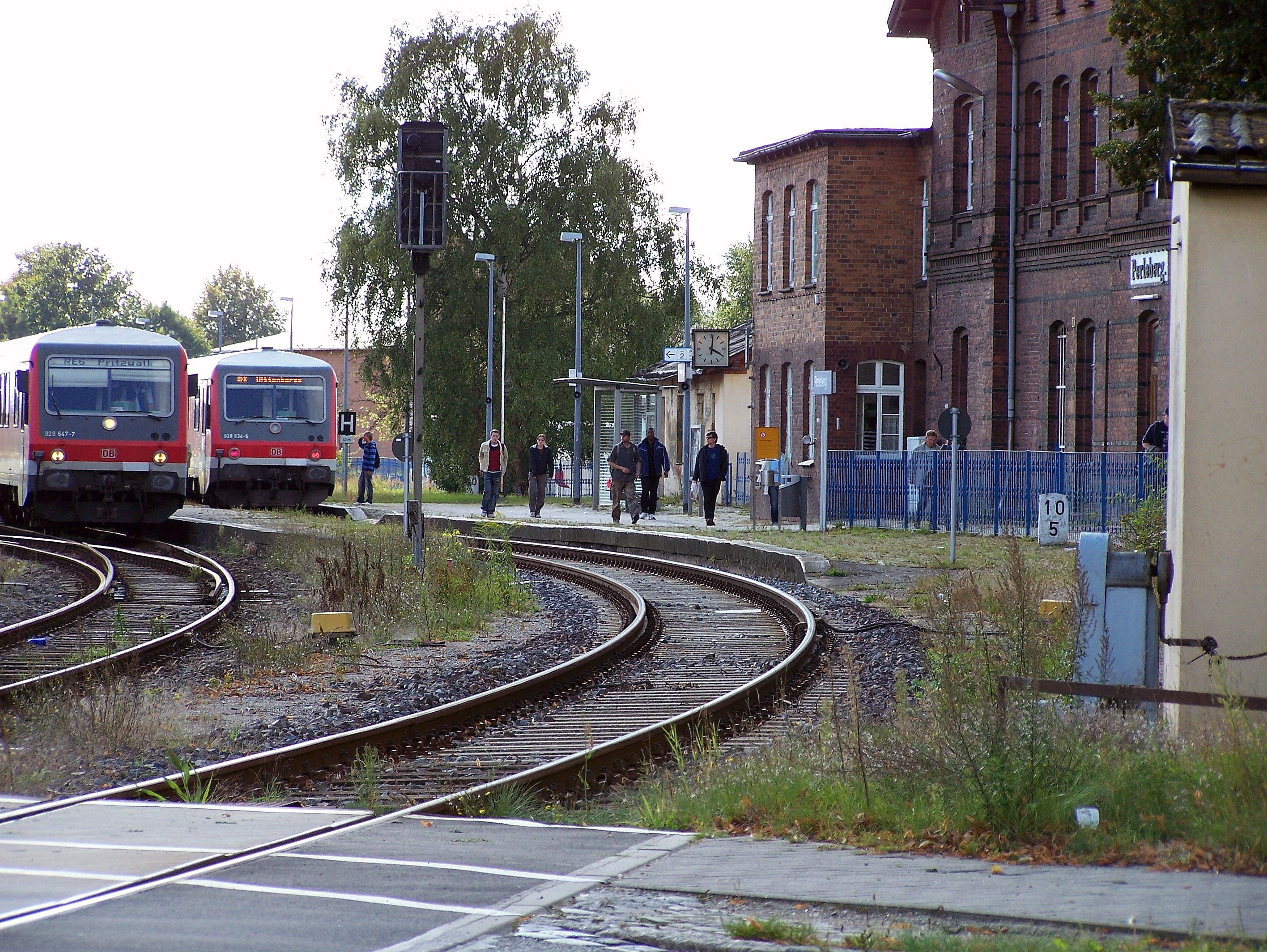 This image was taken at the railway station “Perleberg” of the Mark of Brandenburg, Germany